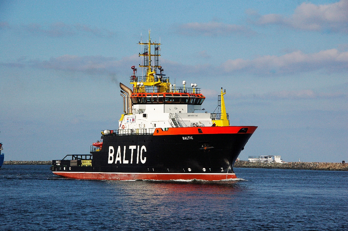 Pictures from Baltic (Ship)